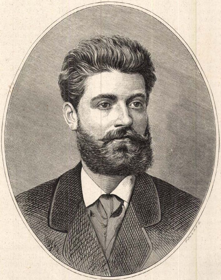 Portrait of Gyula Kepes